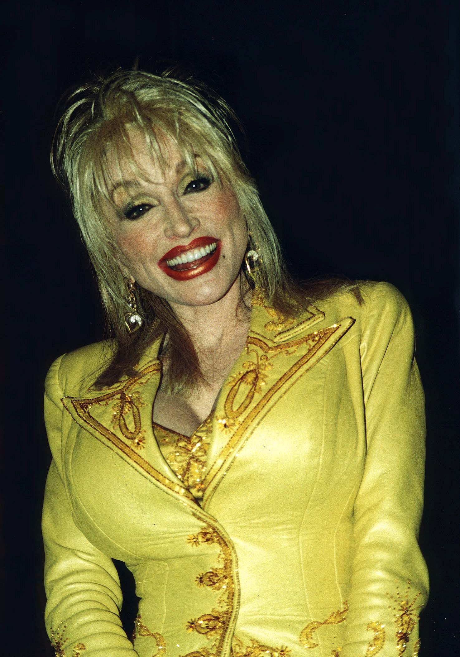 From National press club March 23, 2000 Wash. D.C. Wash. D.C.